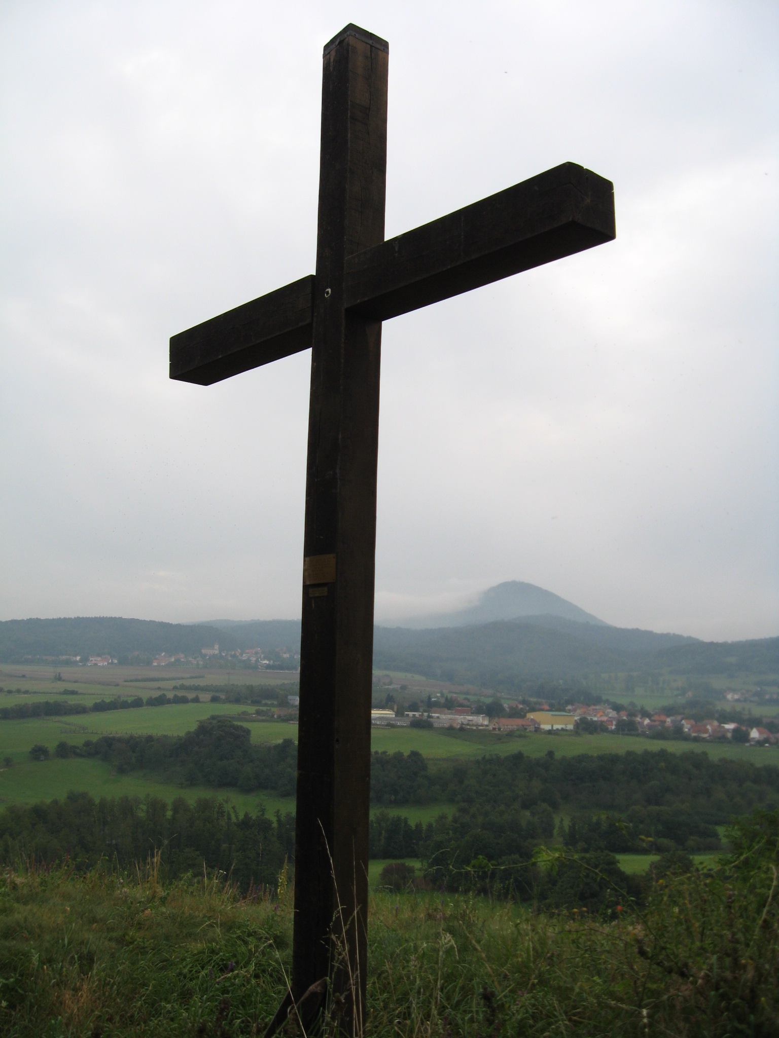 Paradis - Cross on the Top of the Hill Chotyně - the place of Castle Paradis (Czech Republic)